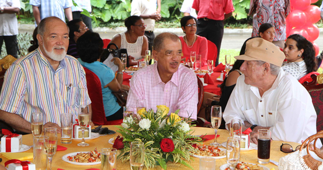 First President of Seychelles James Mancham (left), second President France-Albert René (right) and third, incumbent President of Seychelles James Michel (center) in Victoria's State House at René's 78th birthday party.